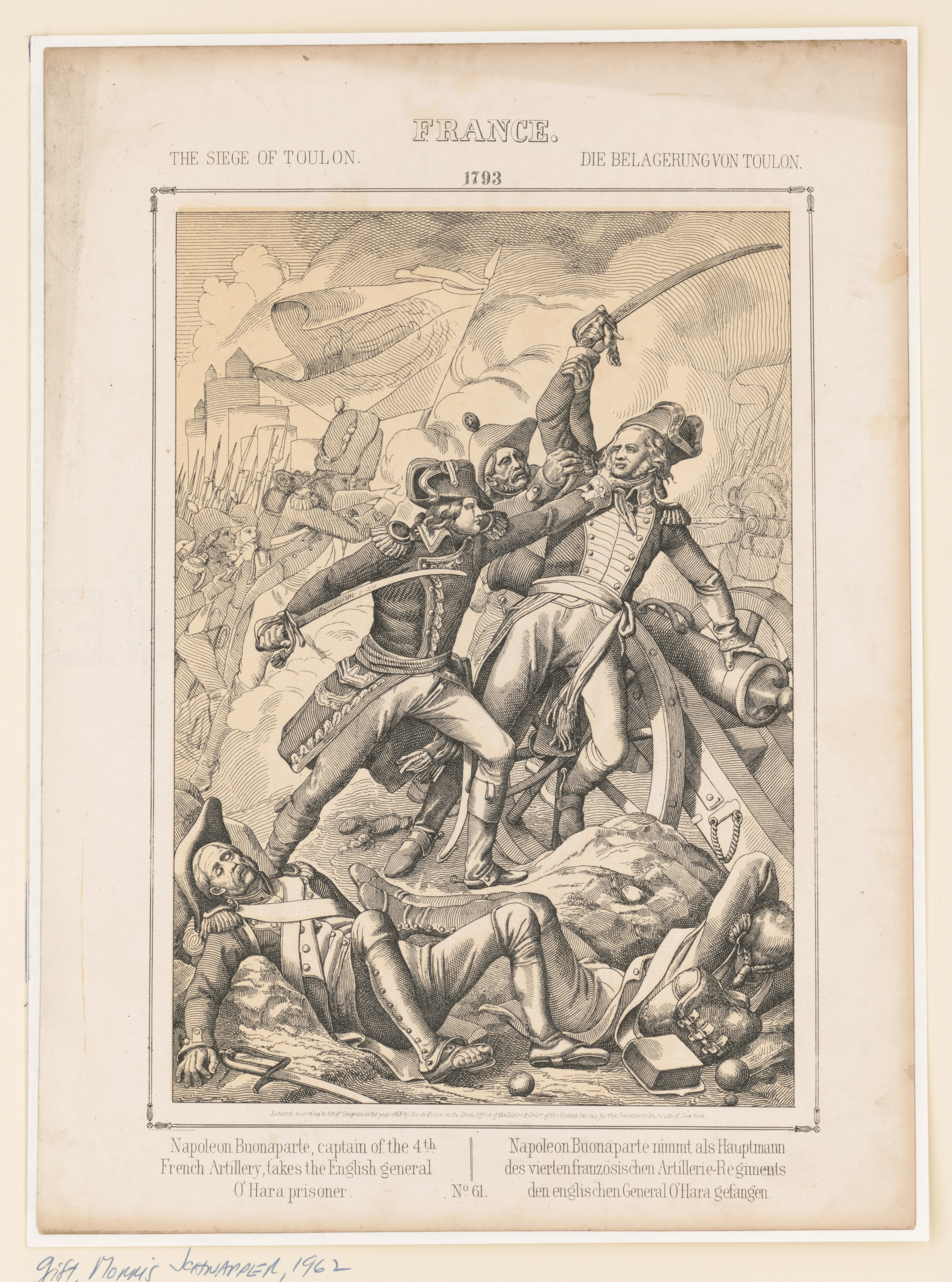 Title: France. The Siege of Toulon Physical description: 1 print. Notes: This record contains unverified data from PGA shelflist card.; Associated name on shelflist card: Rixinger.